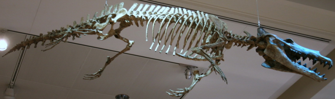 Maiacetus, National Museum of Natural History, USA